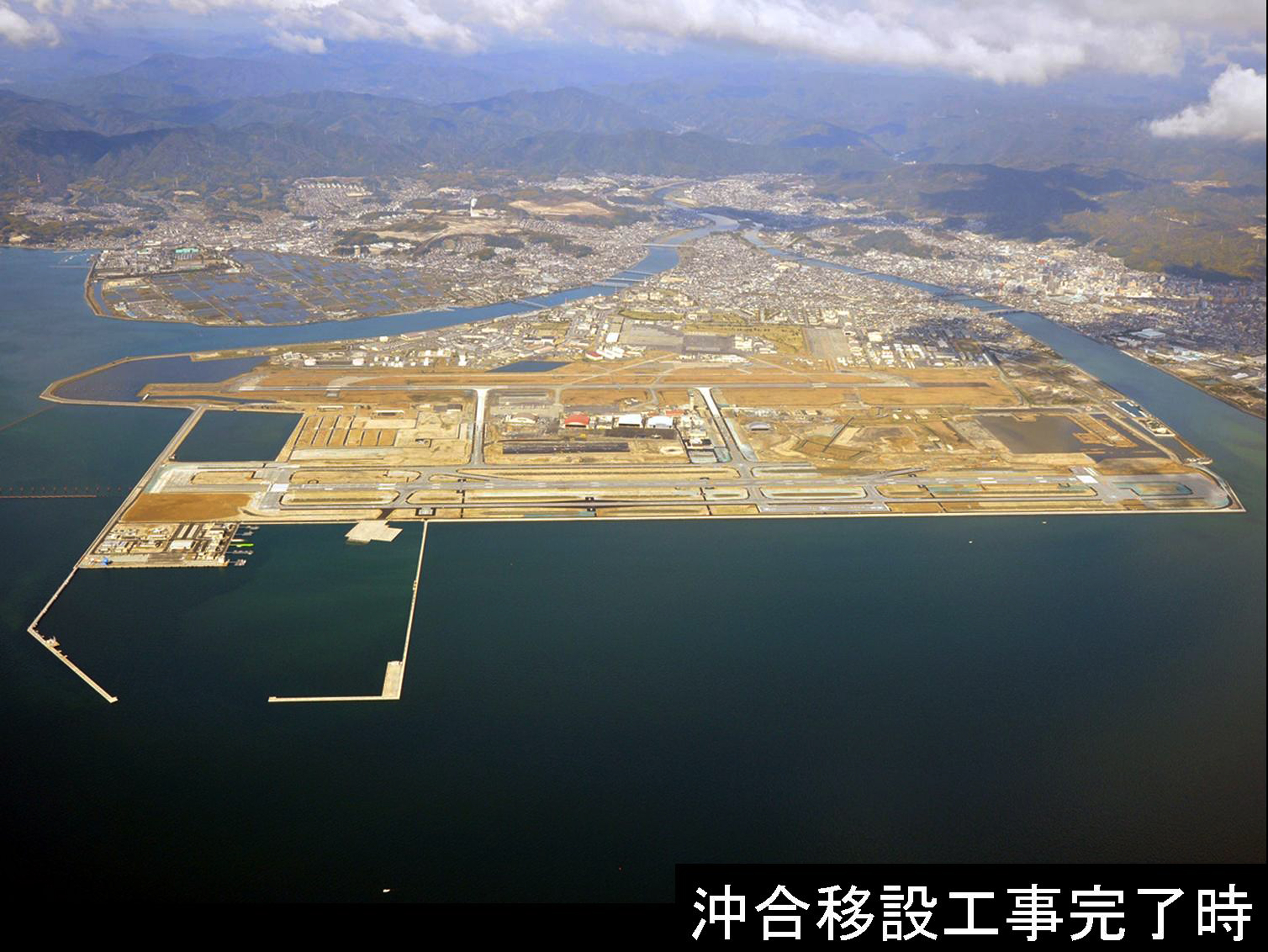 An aerial view of the fully constructed runway. American and Japanese officials gathered at the new runway here to officially open it to flight operations in a commissioning ceremony May 29. The historic ceremony marked the conclusion of the $2.6 billion, 13-year construction effort, which was designed to enhance the safety of flight operations and to decrease aircraft noise in the communities surrounding the air station.